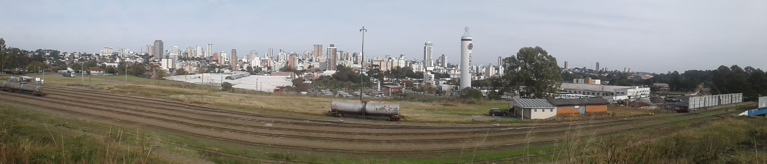 Panoramic view of Passo Fundo city, RS, Brazil